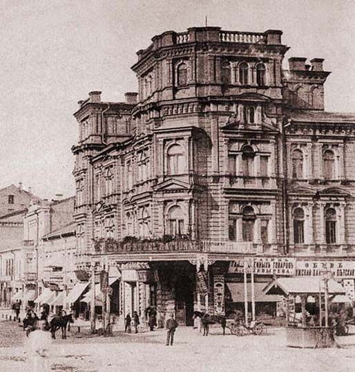 The "National" hotel in Kyiv. Destroyed during the World War II